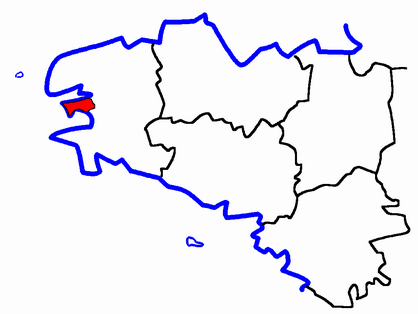 Description: Map for localisazion of cantons of Bretagne region in France Source: made by Hervé Tigier in april 2005 from another large map (published in 1990)